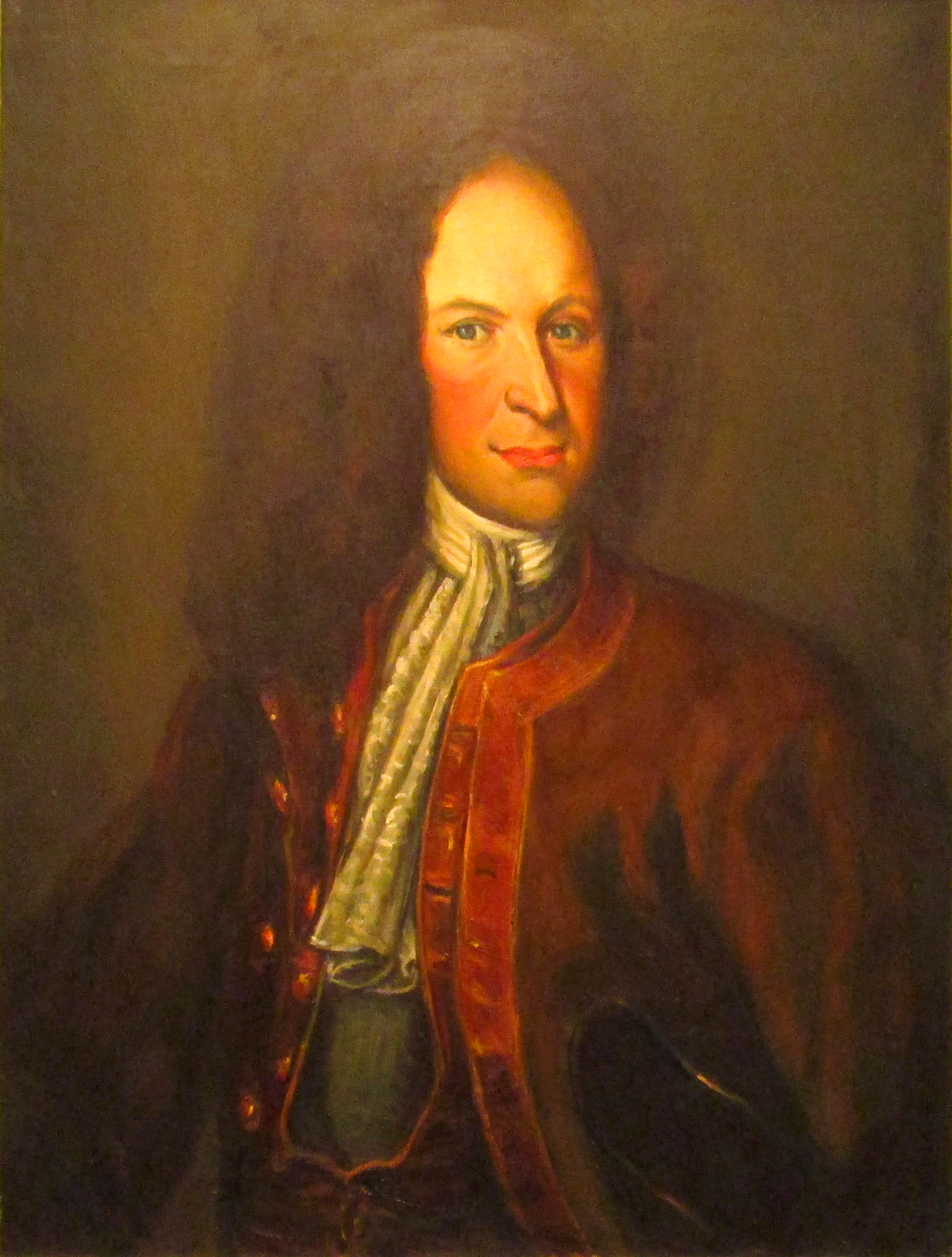 Lars Gathenhielm (1689–1718) oil painting in the Gothenburg Maritime Museum, cropped